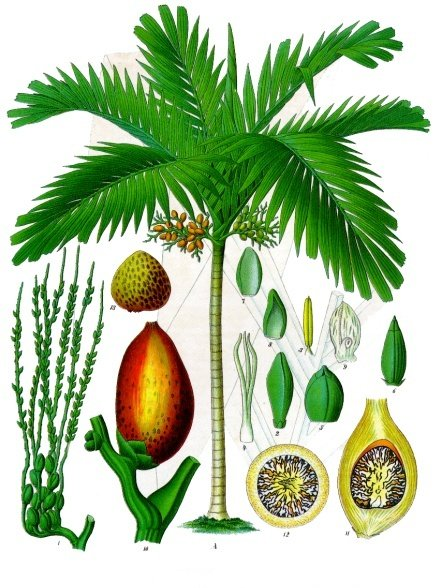 Areca catechu - the Areca palm. In botanical drawing from Köhler's Medizinal-Pflanzen - by Franz Eugen Köhler, in 1897.